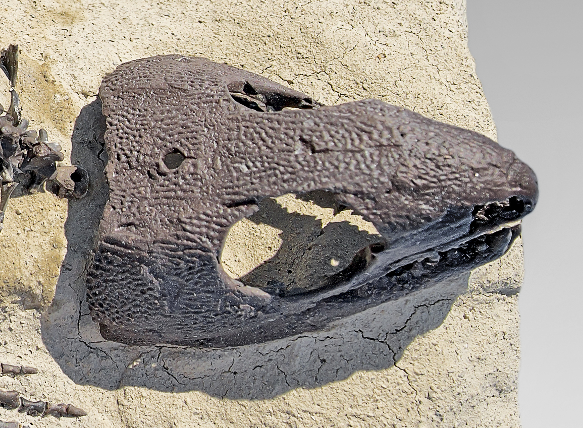 Captorhinus aguti Stage : Early Permian or Cisuralian (299.0 ± 0.8 - 270.6 ± 0.7 Mya) Locality : Dolese Brothers quarry near Fort Sill, Comanche County, Oklahoma, U.S